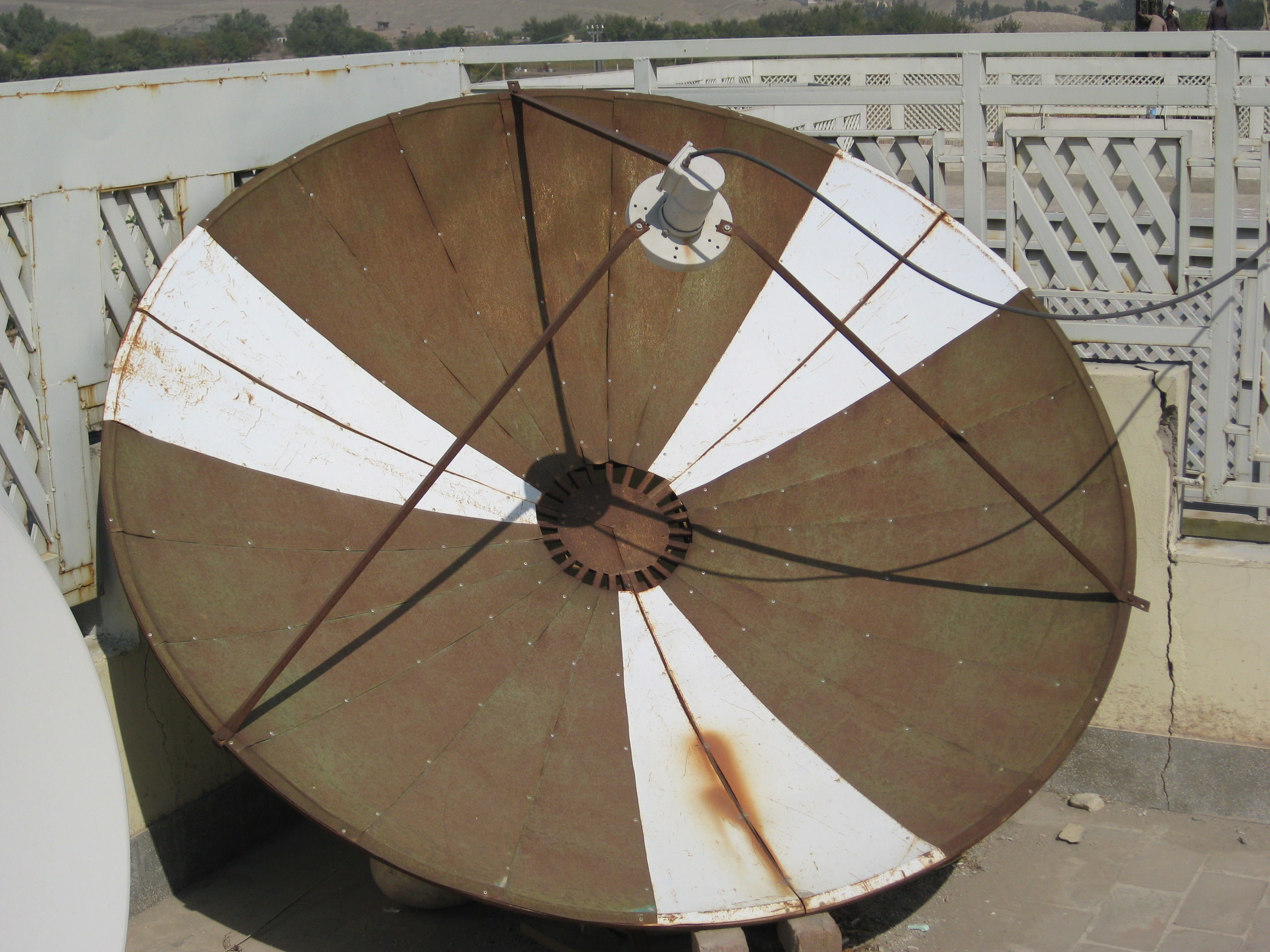 A locally made satellite dish. The metal is scavenged, you can see faint lines of other products on the dish.